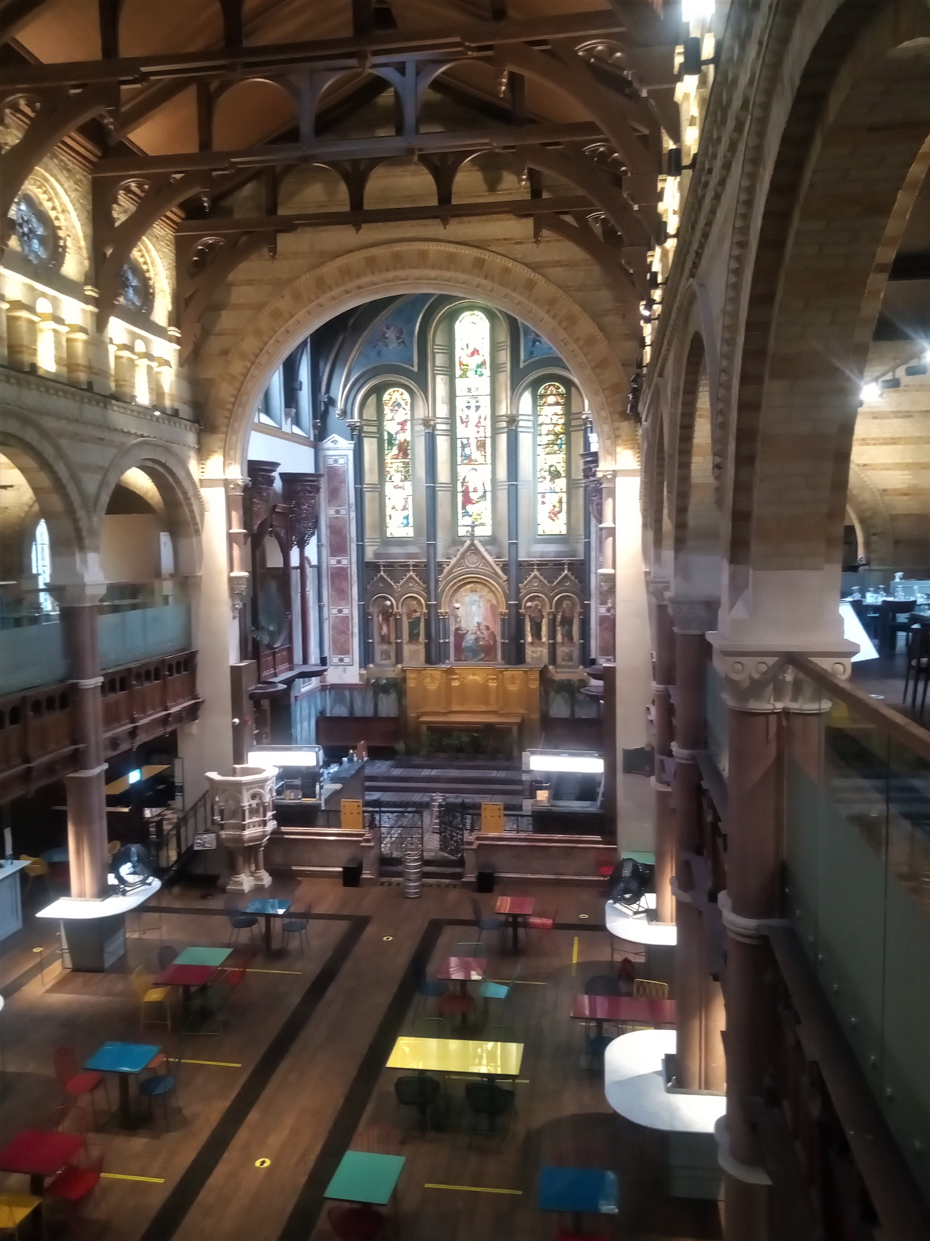 St Mark's Church Mayfair - interior